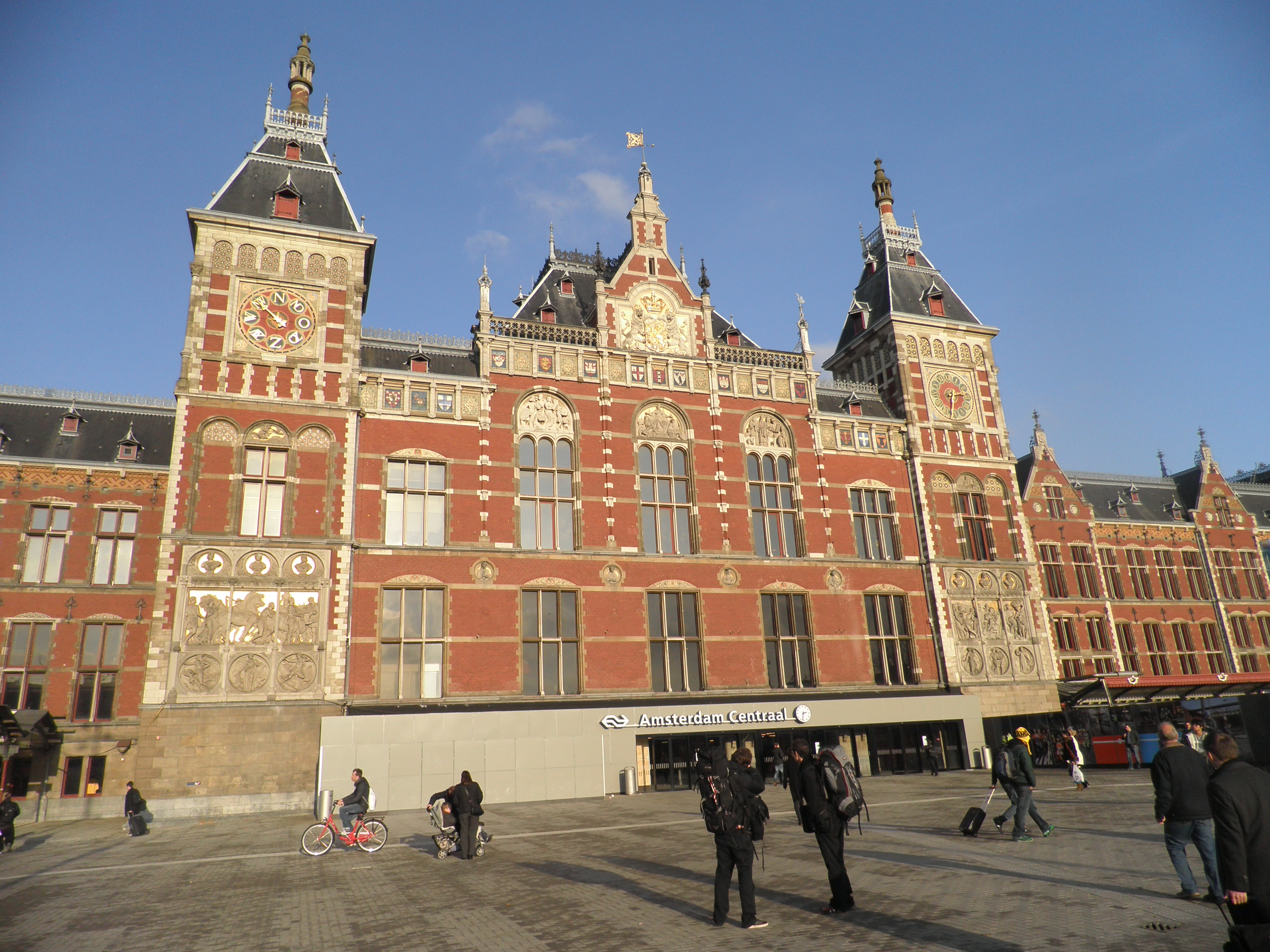 The modernised main entrance at Amsterdam's Central station.